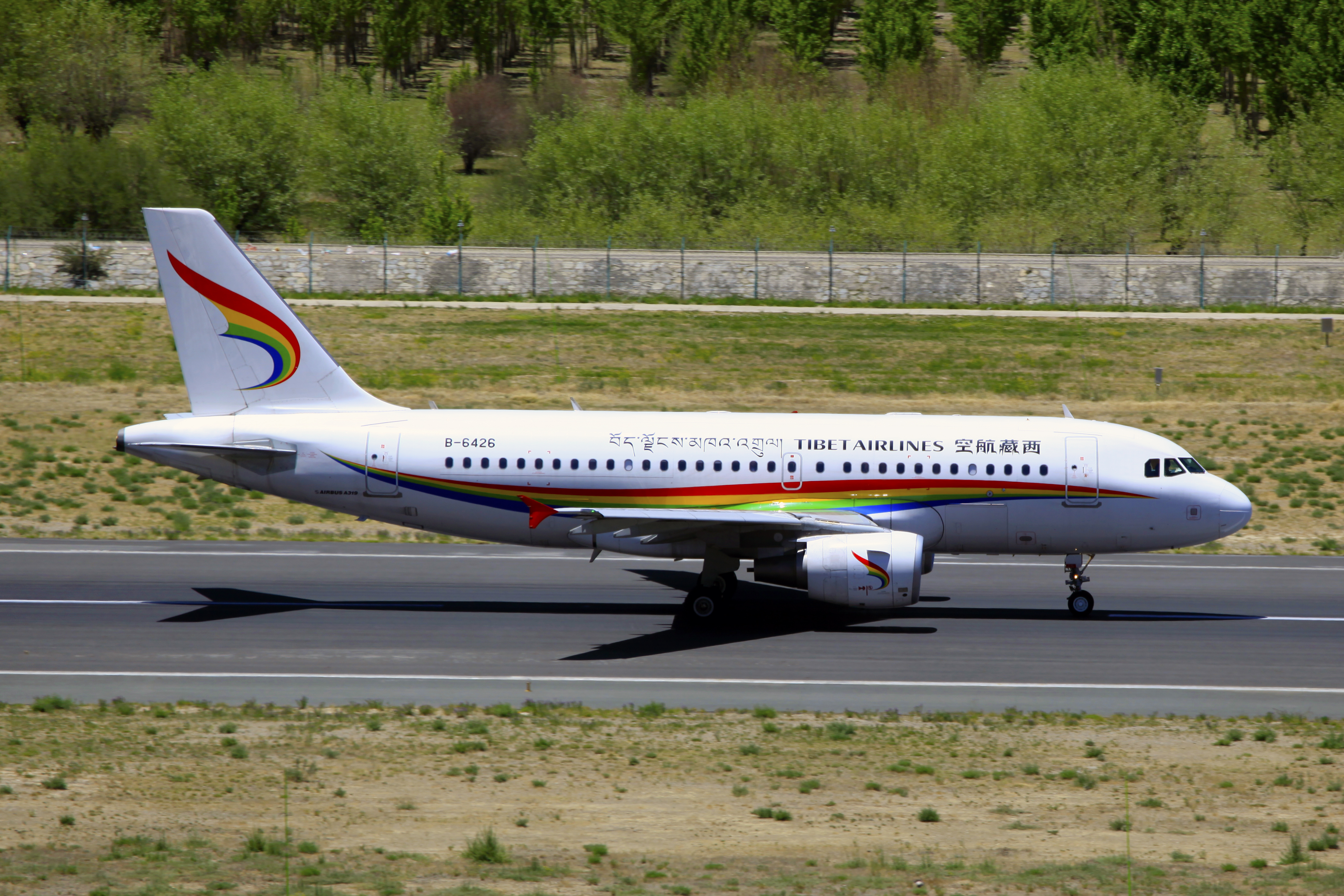 B-6426 | Tibet Airlines | Airbus A319-115 | Lhasa Gonggar Airport [LXA]